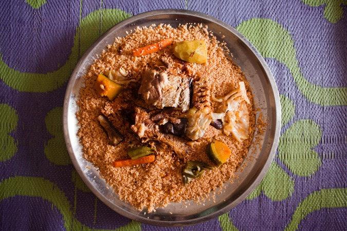 Thieboudienne is the national dish of Senegal and it can be found in other West African countries, too. It is composed of rice cooked in tomato sauce, fish, and vegetables and is served on a large plate to be shared. This is an image of food from Mauritania